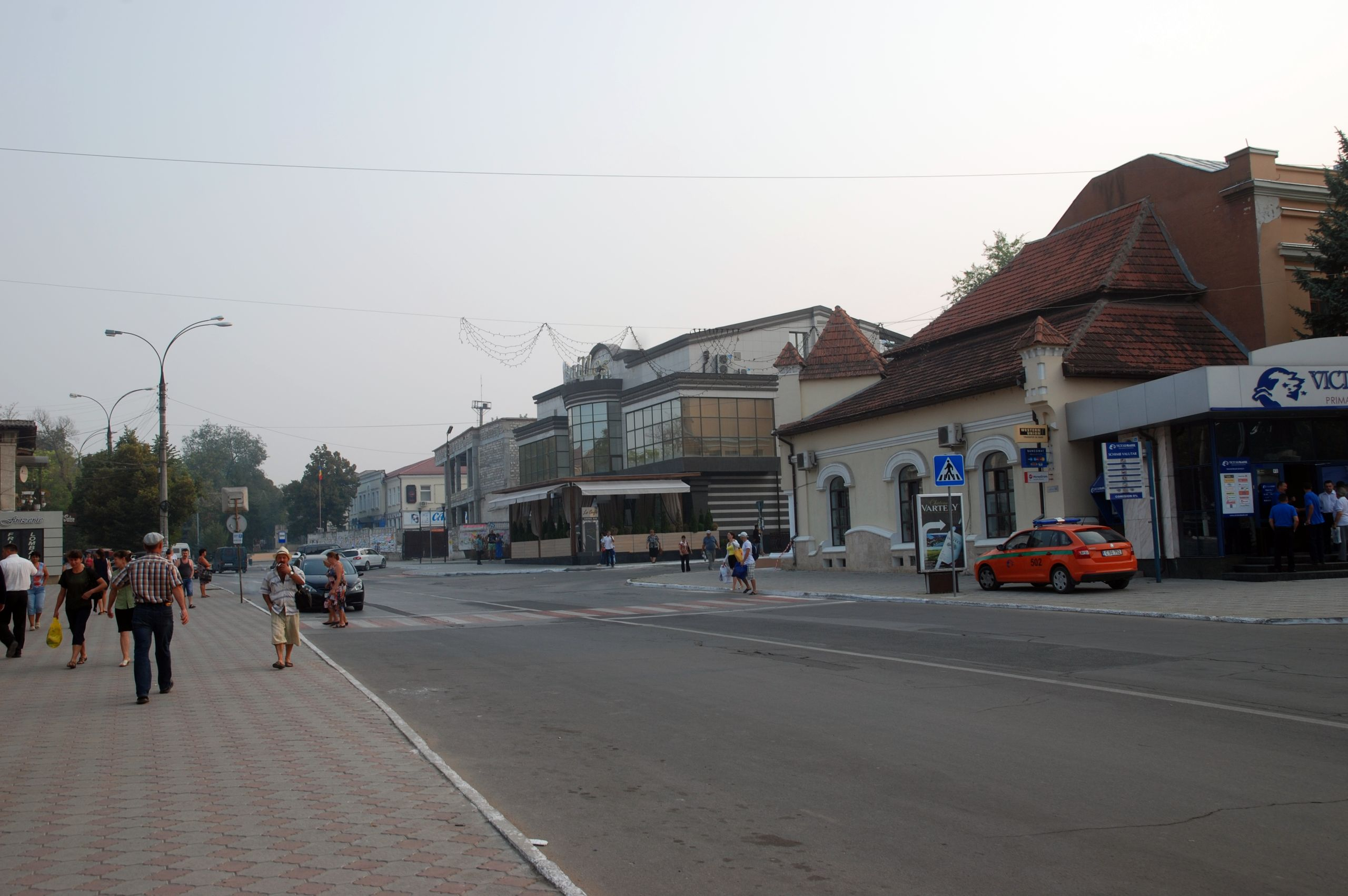 Orhei, center